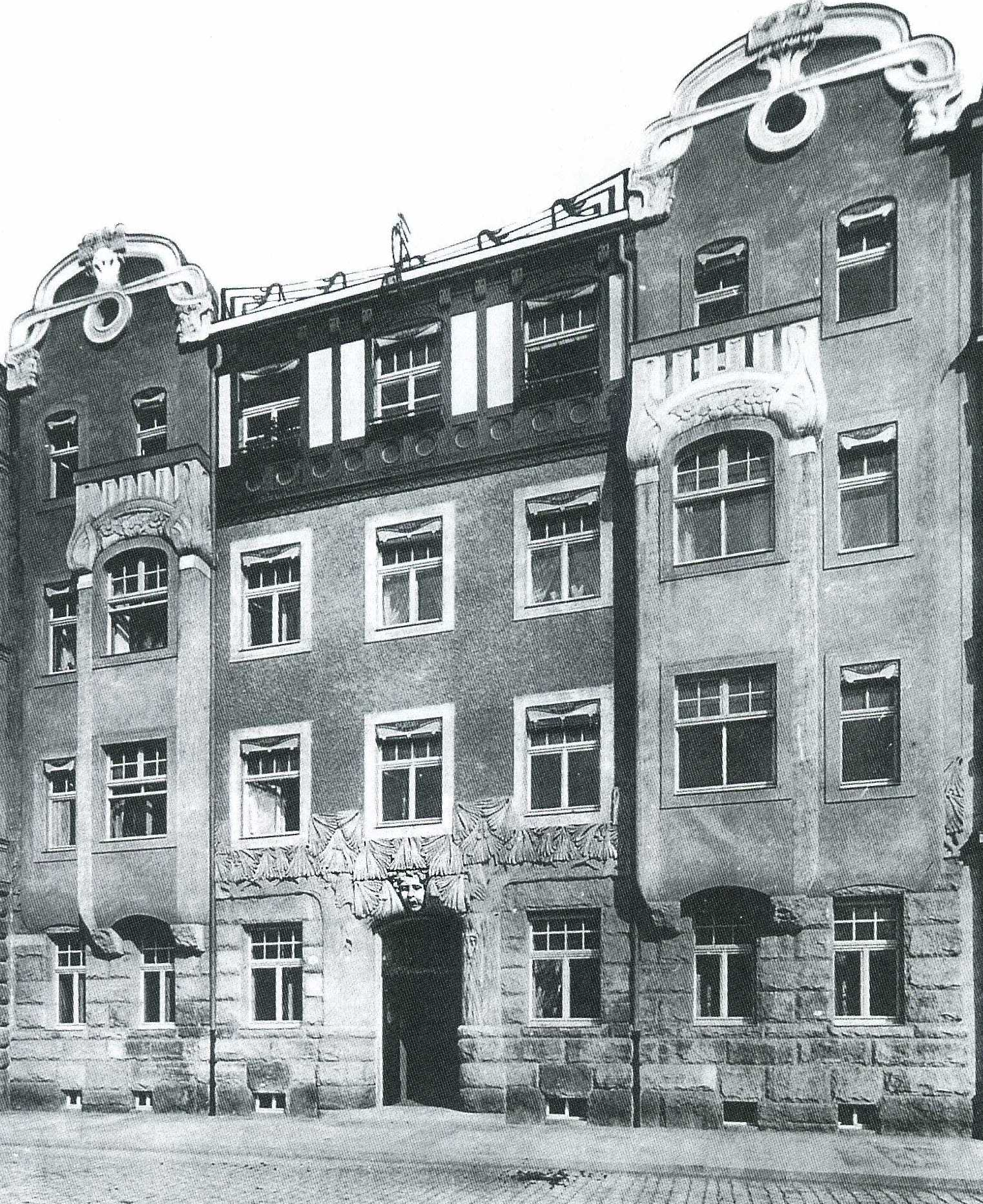 Dresden Katharinenstraße 1 von Friedrich Wilhelm Hartzsch Aufnahme vor 1905